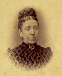 Emily Albers-Fox